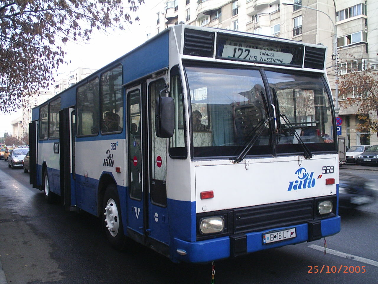 Public bus in Bucharest, Romania (Rocar DAC 112 UDM type). Year built 1990.